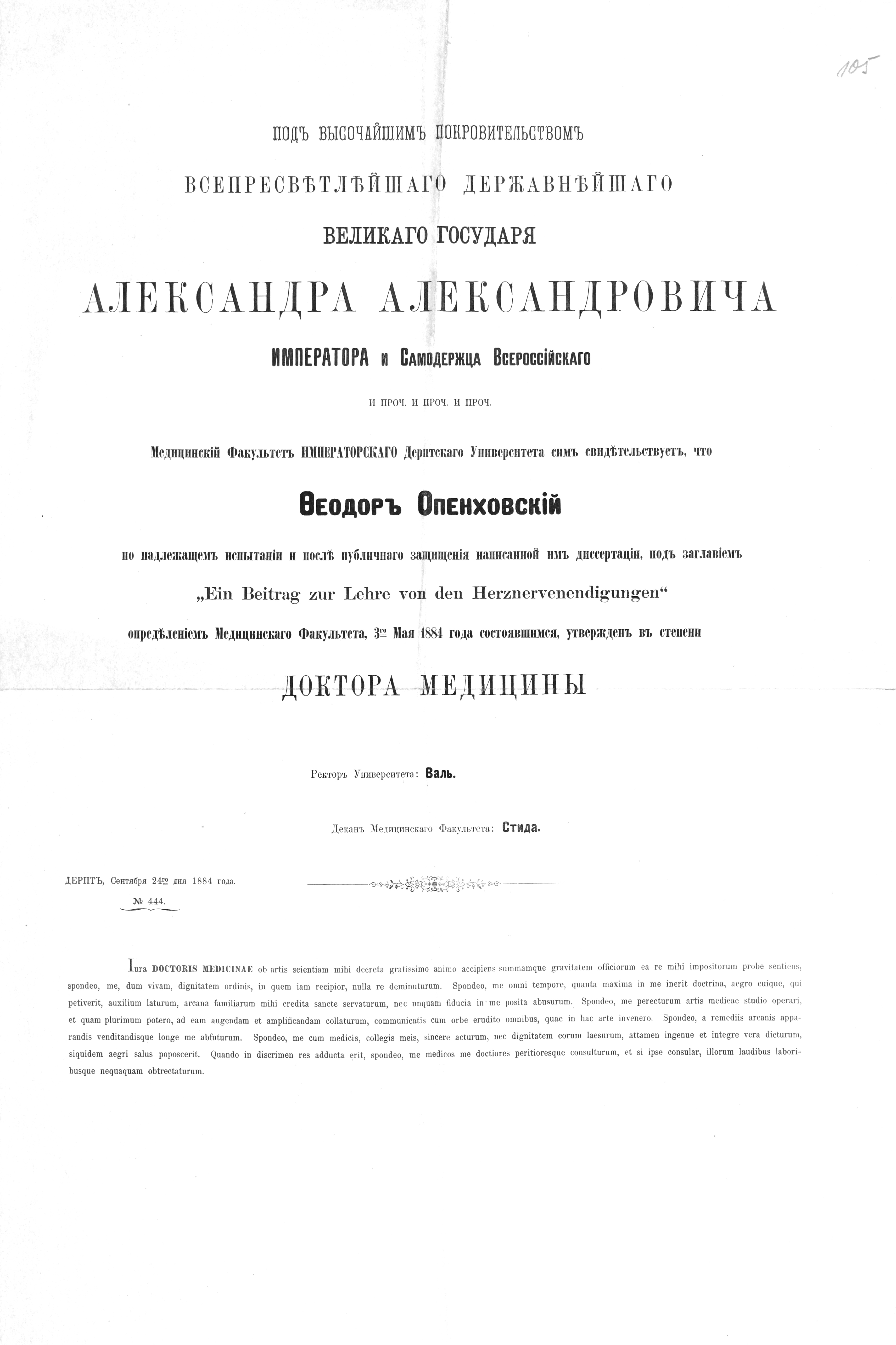 Theodor Openchowski's M.D. diploma from the University in Dorpat (1884)